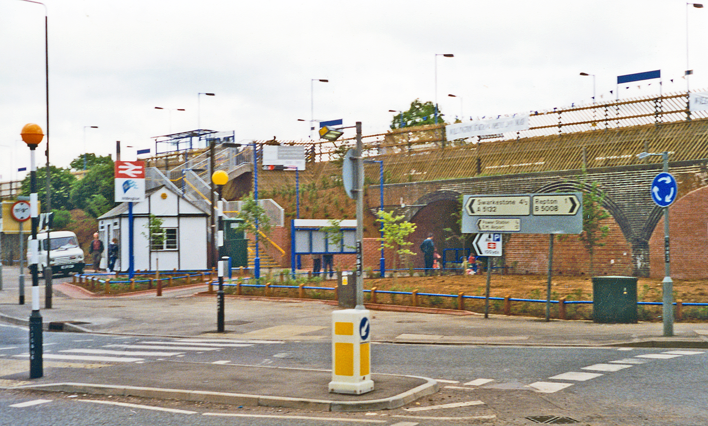 Willington Station, on reopening 1995. View eastward from Station Road: formerly Repton & Willington, closed 4/3/66, reopened this day (29/5/95).